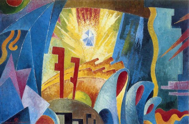 Una tarde maravillosa tomada en los hermosos ojos del central park en Nueva York . Estados Unidos de America.